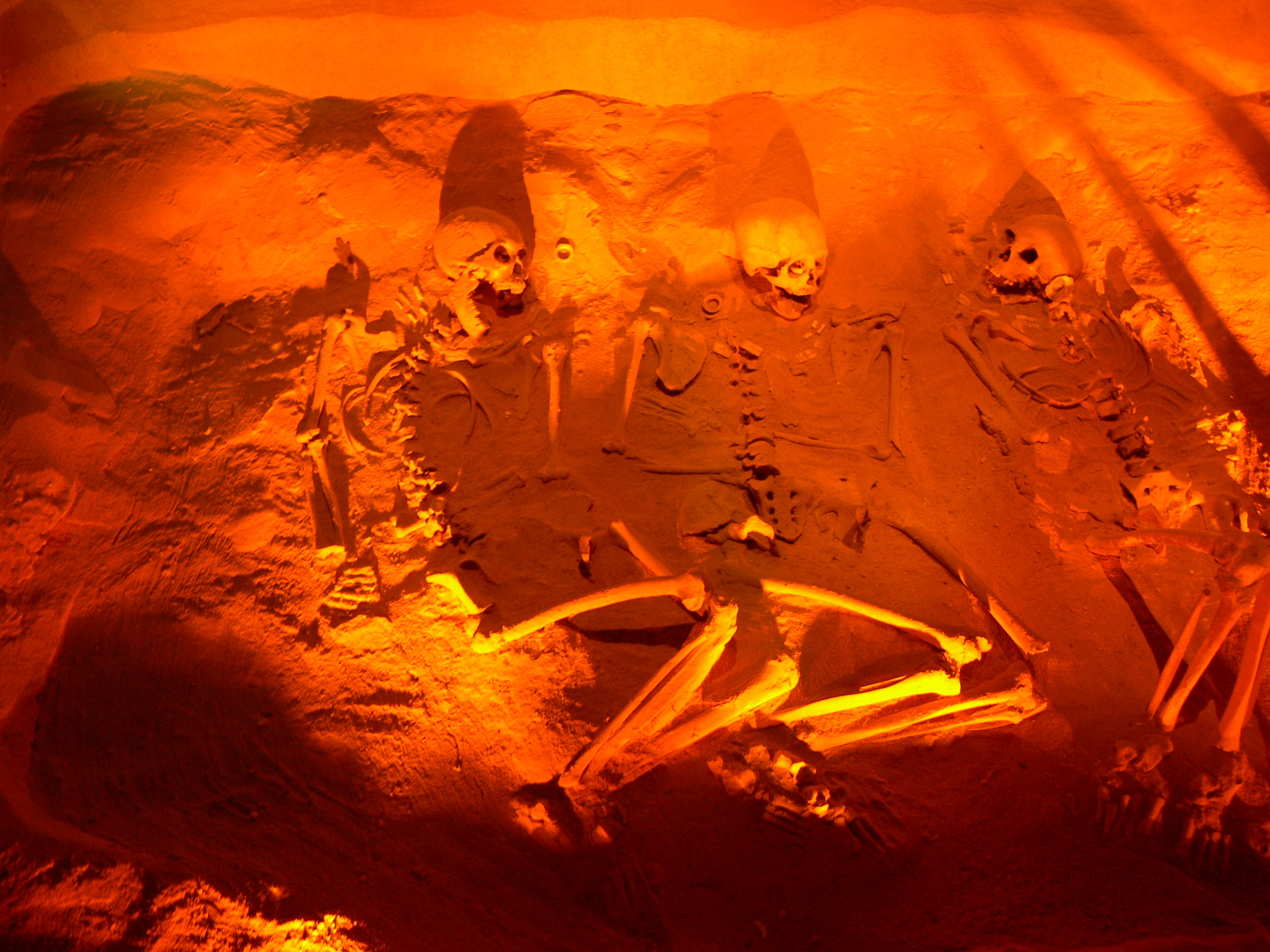 Museo del sitio, Teotihuacán. Human sacrifices found at the foundations of La Ciudadela